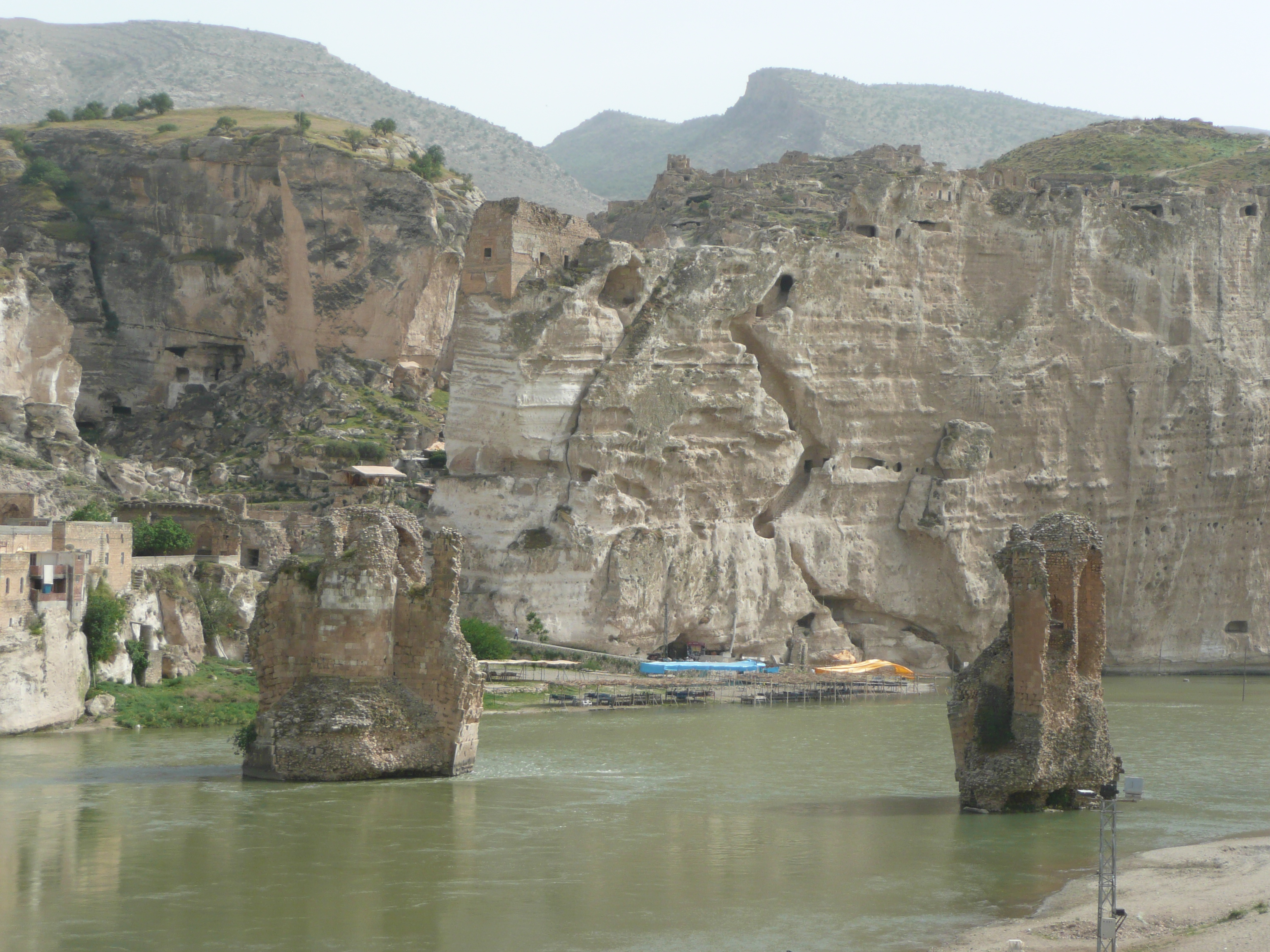 Photographs from Hasankeyf, Batman, Turkey